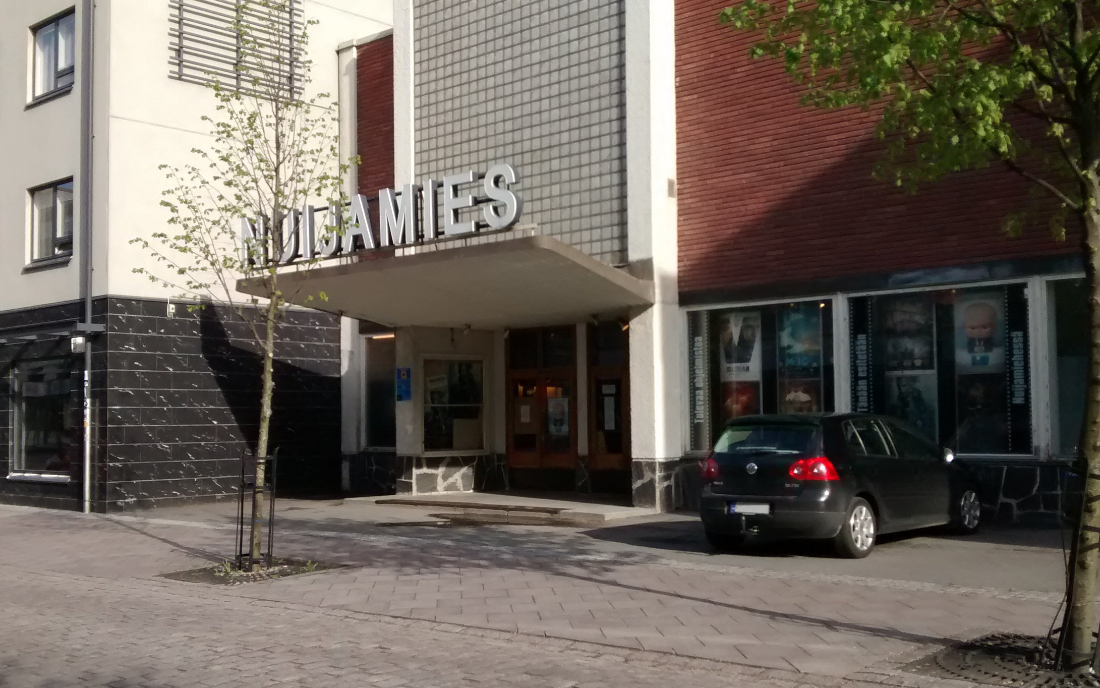 Cinema Nuijamies. Valtakatu, Lappeenranta.